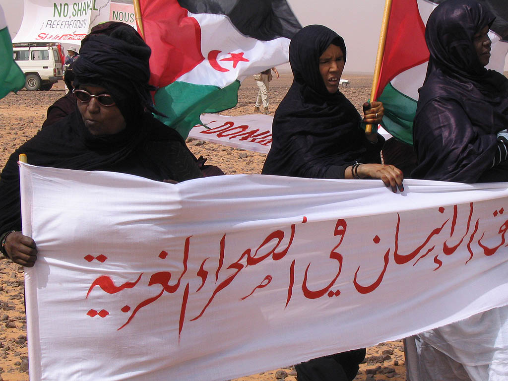 Somewhere south of Mahbes, Western Sahara, in the freed zone. Sahrawi women in the II International march against the Moroccan built wall that divides western sahara. The longest wall built on Earth, this wall consists of a long wall with a berm, barbed wire, millions of landmines and electronic systems, surveiled by thousands of moroccan soldiers. En un punto del desierto al sur de la ciudad ocupada de Mahbes pero en la zona liberada del Sahara Occidental. Mujeres saharauis protestan en la II Marcha internacional contra el Muro de la Verguenza que divide el Sahara Occidental. Este muro consiste en mas de 2.000 kilometros de construccion defensiva rodeada de campos de minas y protegida por alambradas y miles de soldados marroquies.